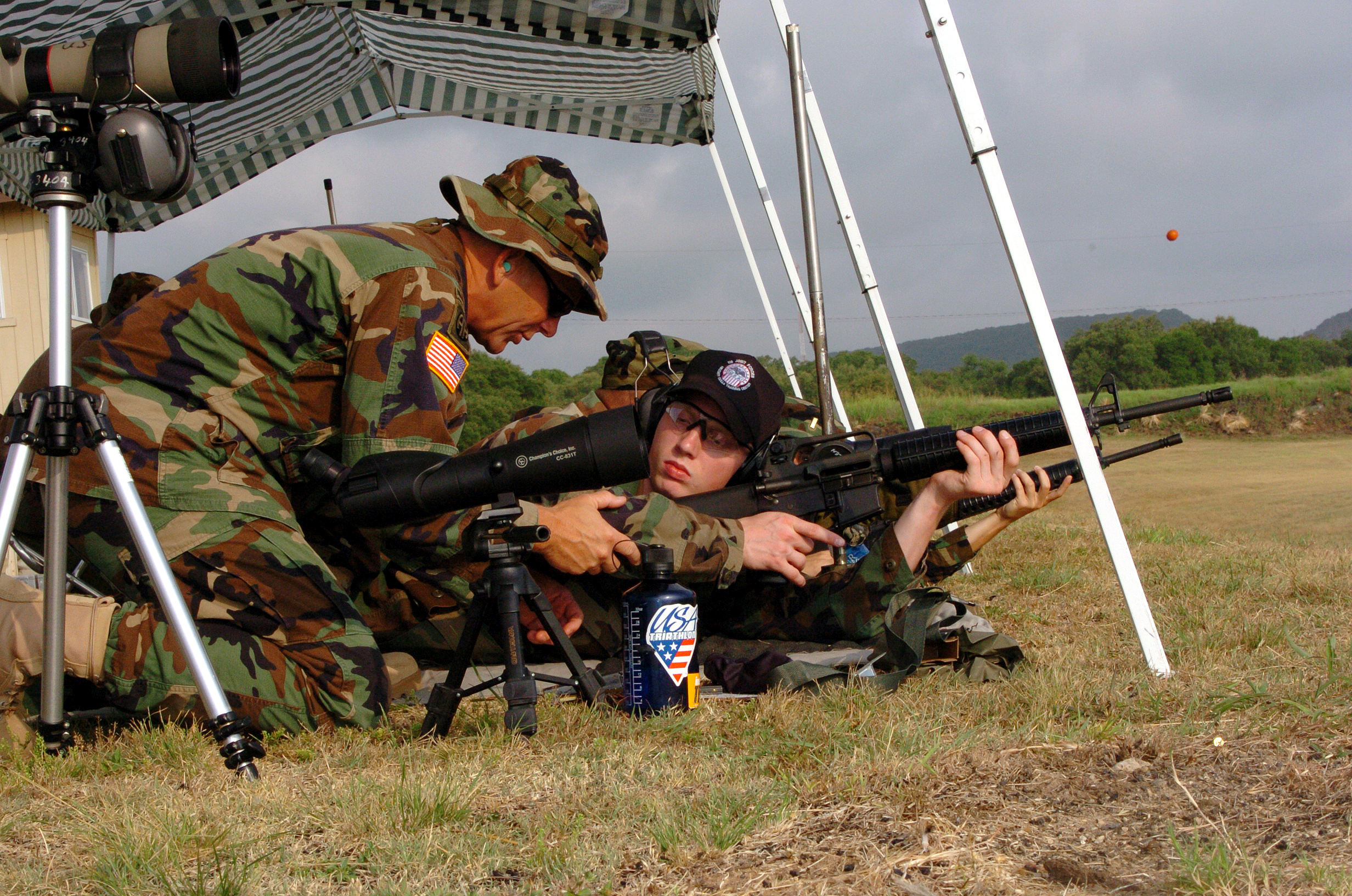 Fort Sam Houston, Texas (June 27, 2005) - U.S. Army Reserve Sgt. Maj. Robert Payne, left, instructs U.S. Navy Midshipman Jake Rankinen on proper body positioning during live fire marksmanship training at the U.S. Joint Forces Leader Development and Military Skills Training Course held at Fort Sam Houston. Midshipman Rankinen is a U.S. Navy Reserve Officer Training Corps (ROTC) student studying at Rensselaer Polytechnic Institute in Troy, N.Y. U.S. Army photo by Master Sgt. D. Keith Johnson (RELEASED)